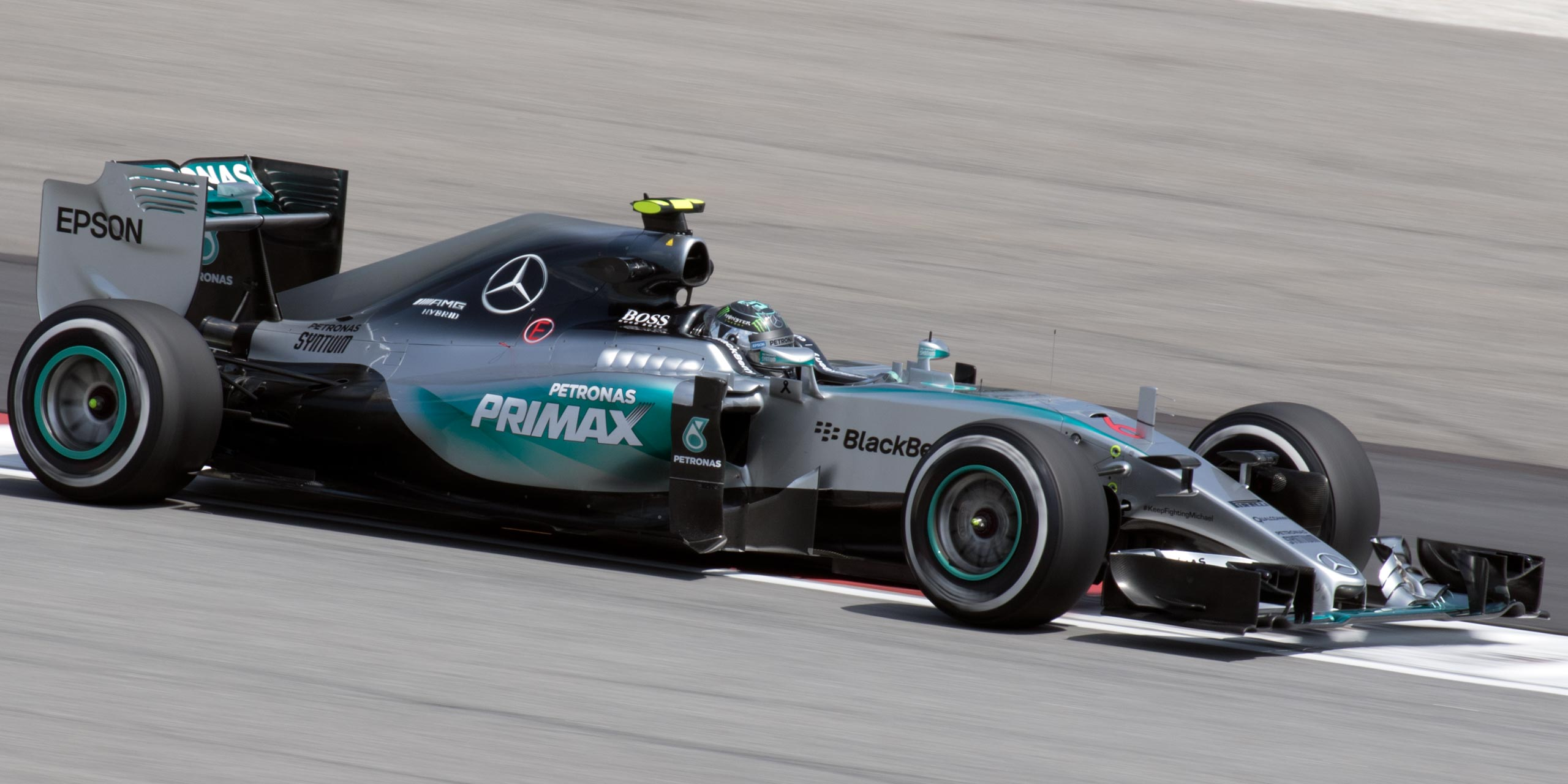 Formula One 2015 Rd.2 Malaysian GP: Nico Rosberg (Mercedes GP)